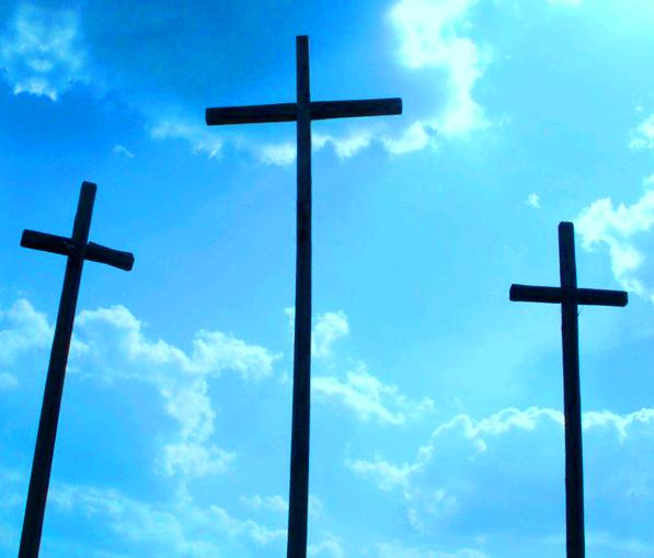 Three crosses mountain. Szydłowiec near Radom, Poland.